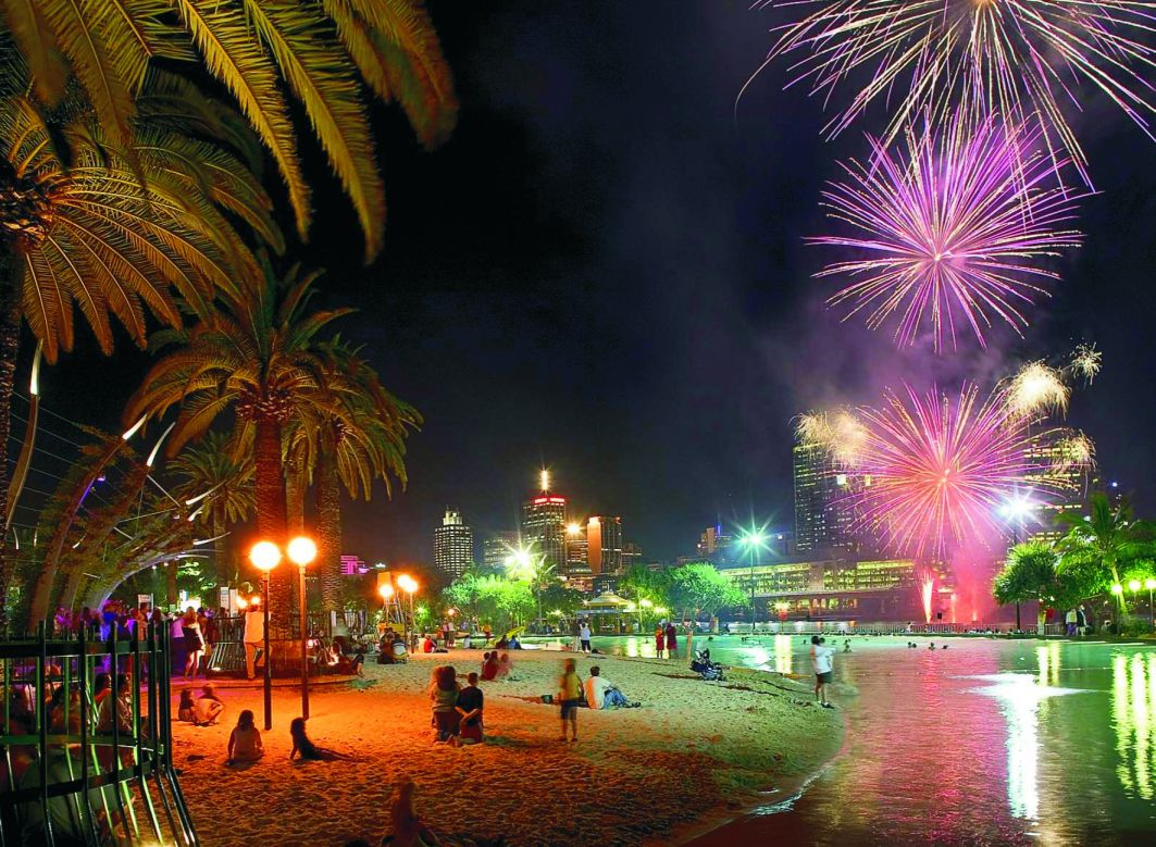 Artifical beach at Southbank, in central Brisbane, at night. Fireworks in the background.